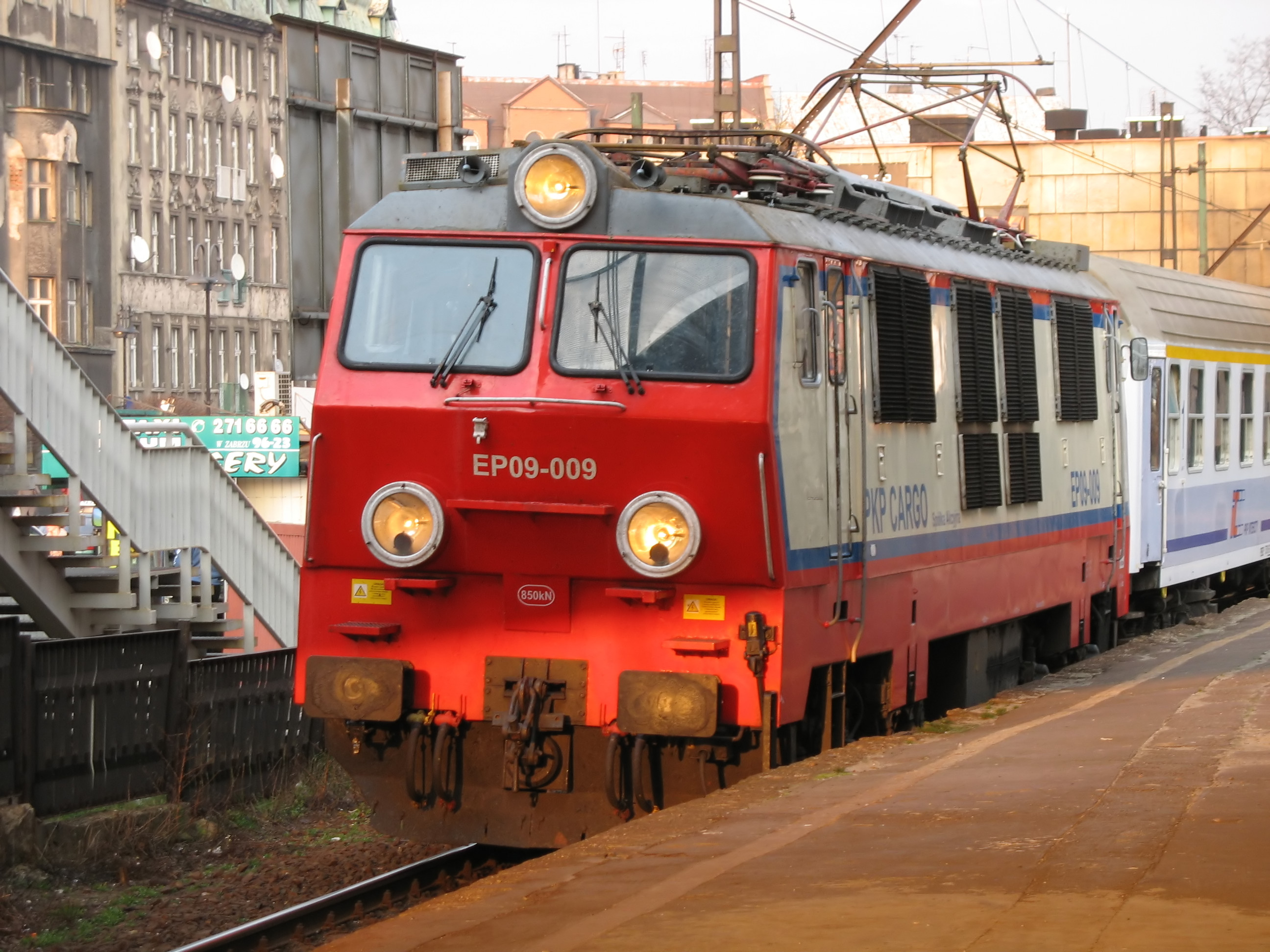 Polish electric locomotive EP096-009 in Zabrze